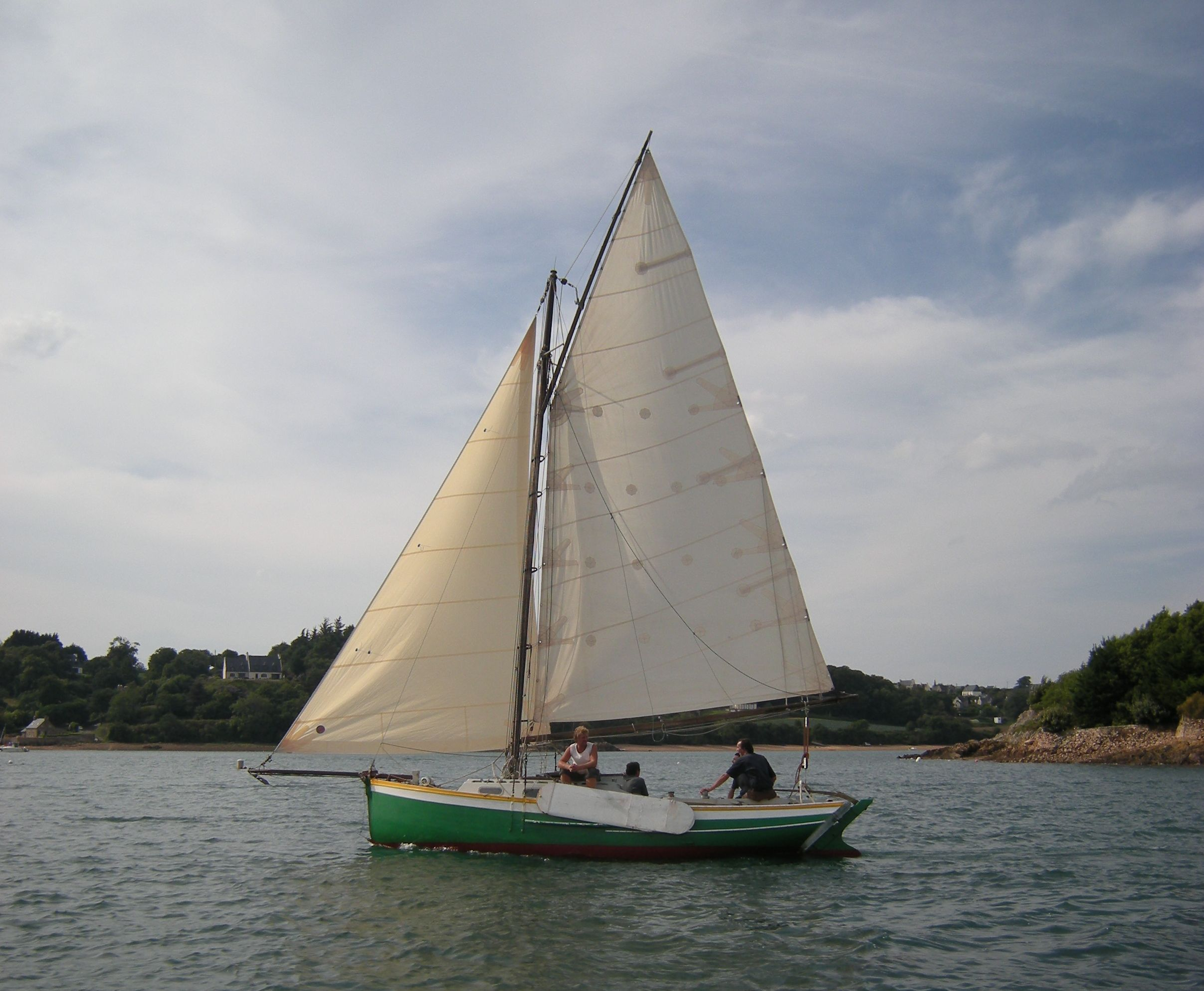 Cutter, gaff rigged, with lateral boards, on Trieux river